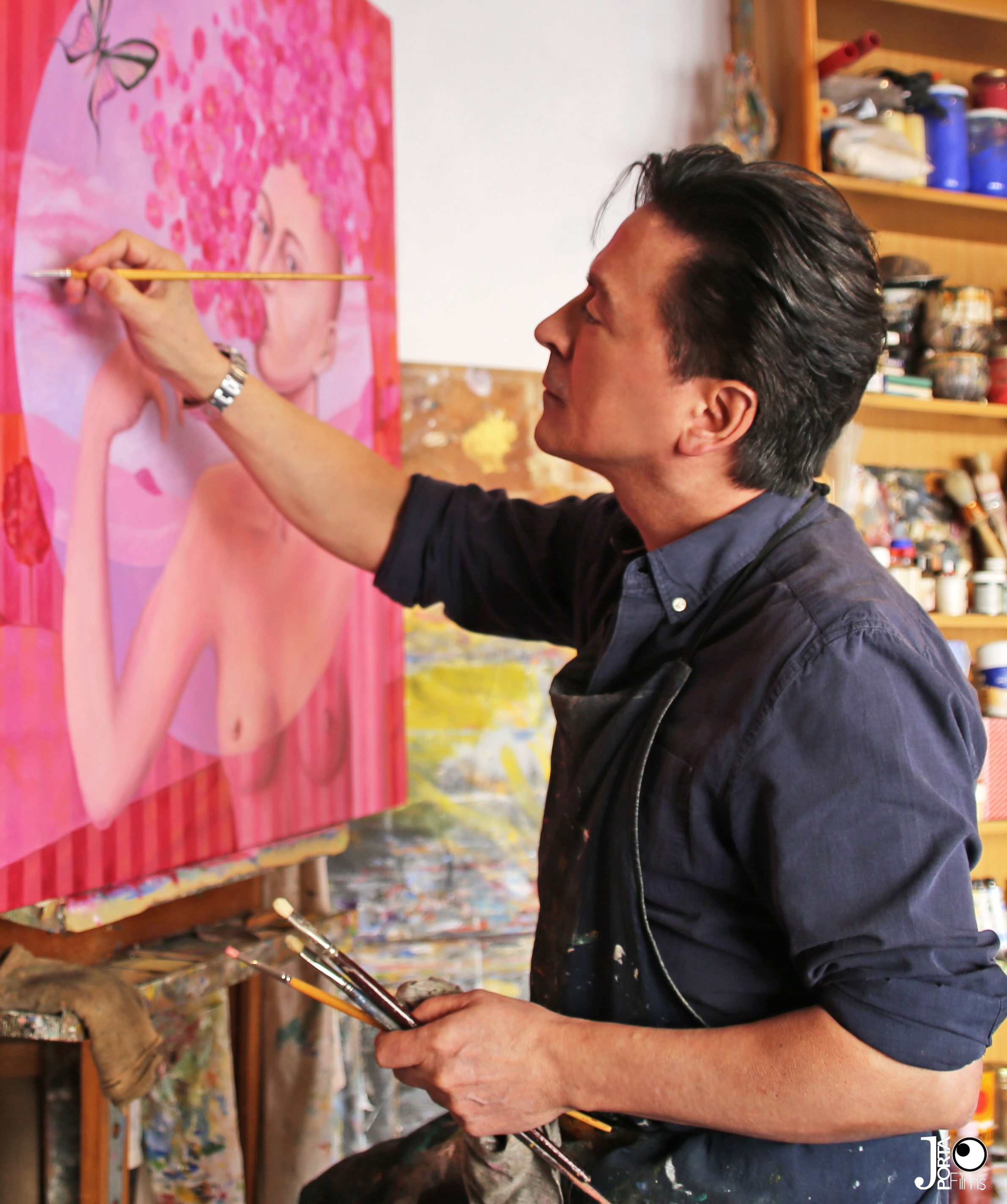 Joan Tuset during the filming of a video by Josep portabella 2017.